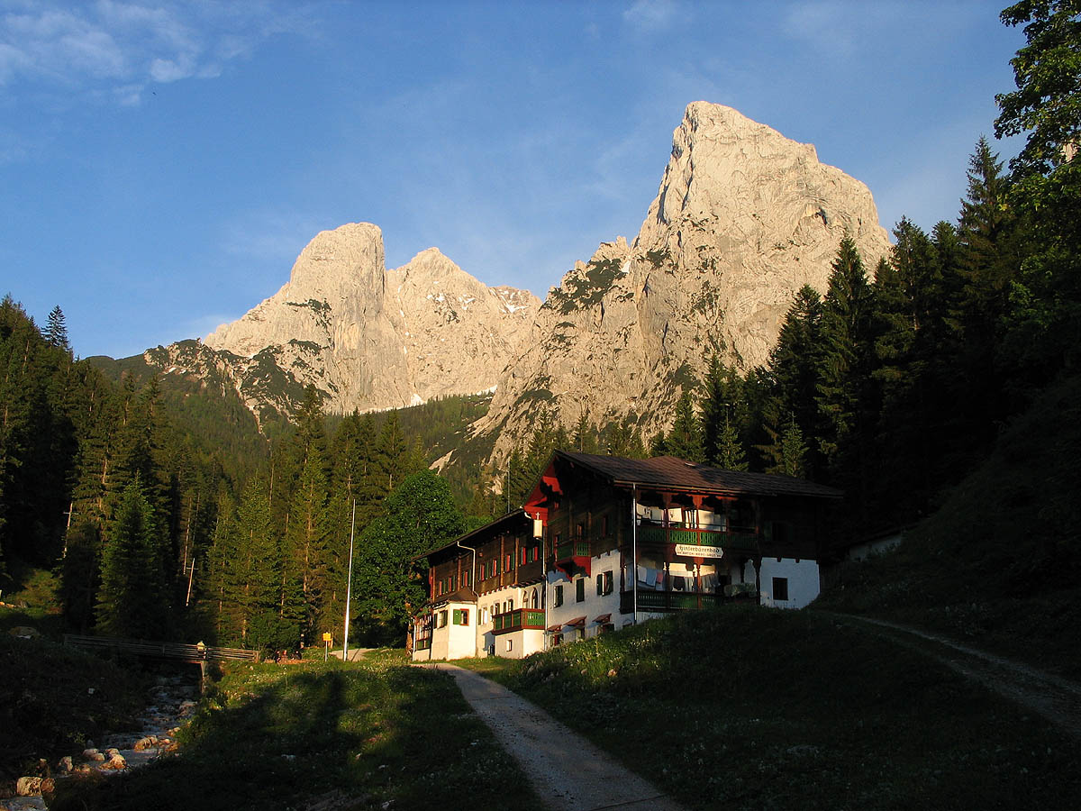 Anton-Karg-Haus (Hinterbärenbad) in Kaisertal/Tyrol. Mountains Totenkirchl (2190m) and Kleine Halt (2116) This media shows the remarkable cultural object in the Austrian state of Tyrol listed by the Tyrolean Art Cadastre with the ID 81805. (on tirisMaps, pdf, more images on Commons, Wikidata)